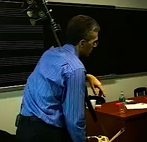 Timothy Cobb. Lesson, 2007 or 08.